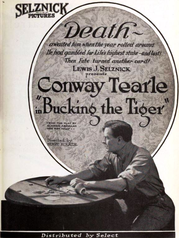 Advertisement for the American drama film Bucking the Tiger (1921) with Conway Tearle, on page 5 of the April 30, 1921 Exhibitors Herald. The title refers to slang for the gambling card game faro, which was once popular in the United States, although the plot of the film does not involve the game.